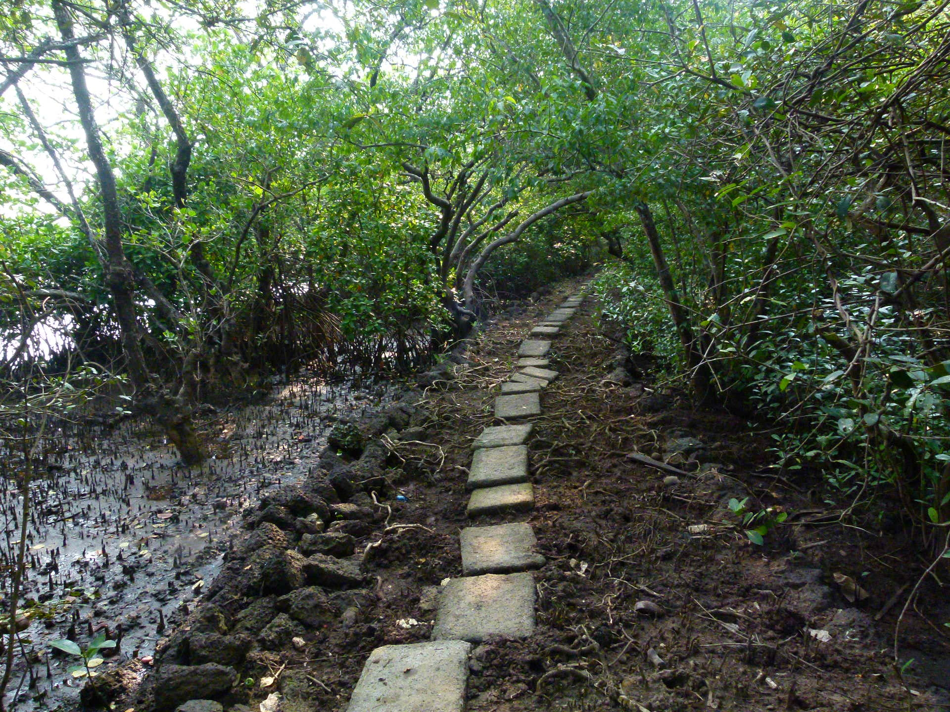 Walkway inside Salim Ali Sanctuary, Chorao, Goa